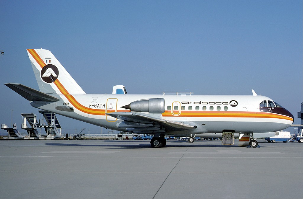 A VFW-614 of Air Alsace at Basle Airport